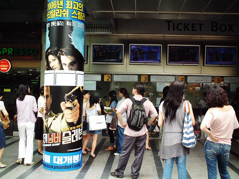 Movie Theater in the Sinchon area